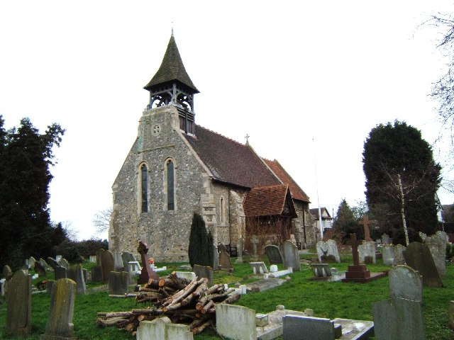 St Catherine's Wickford. This is St Catherine’s Church Wickford. The church stands on raised ground to the side of the A129 Southend Rd.